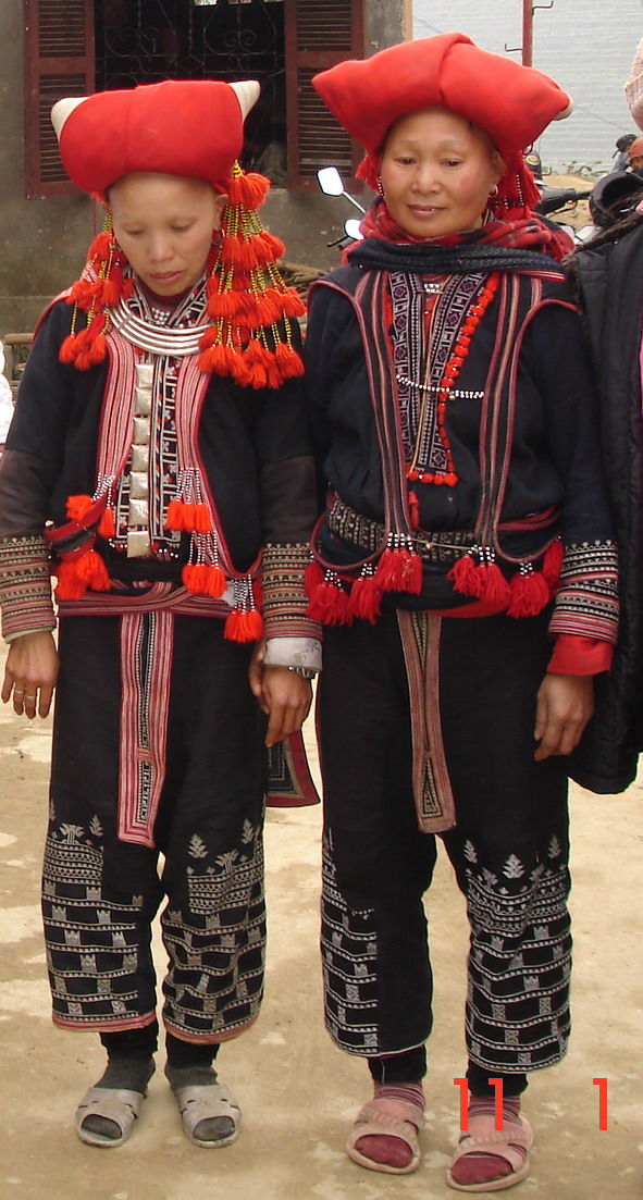 Zao woman in Sapa, Vietnam.